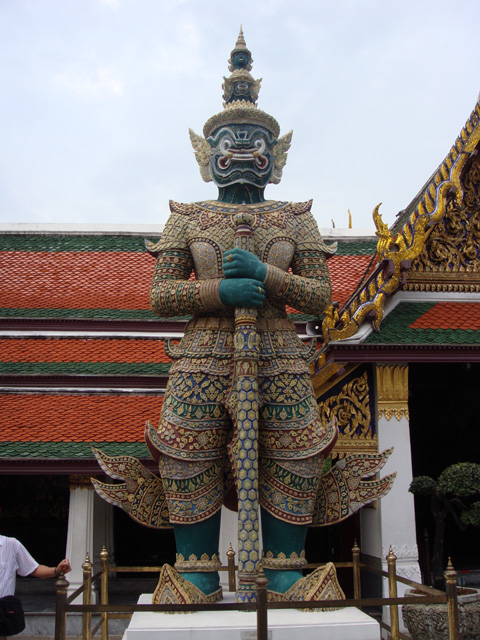 Guardian giant (Yaksha), this special one being called Thotsakan, character from the Thai Ramakian or Ramayana epic, within Wat Phra Kaeo in the Grand Palace of Bangkok, Thailand.